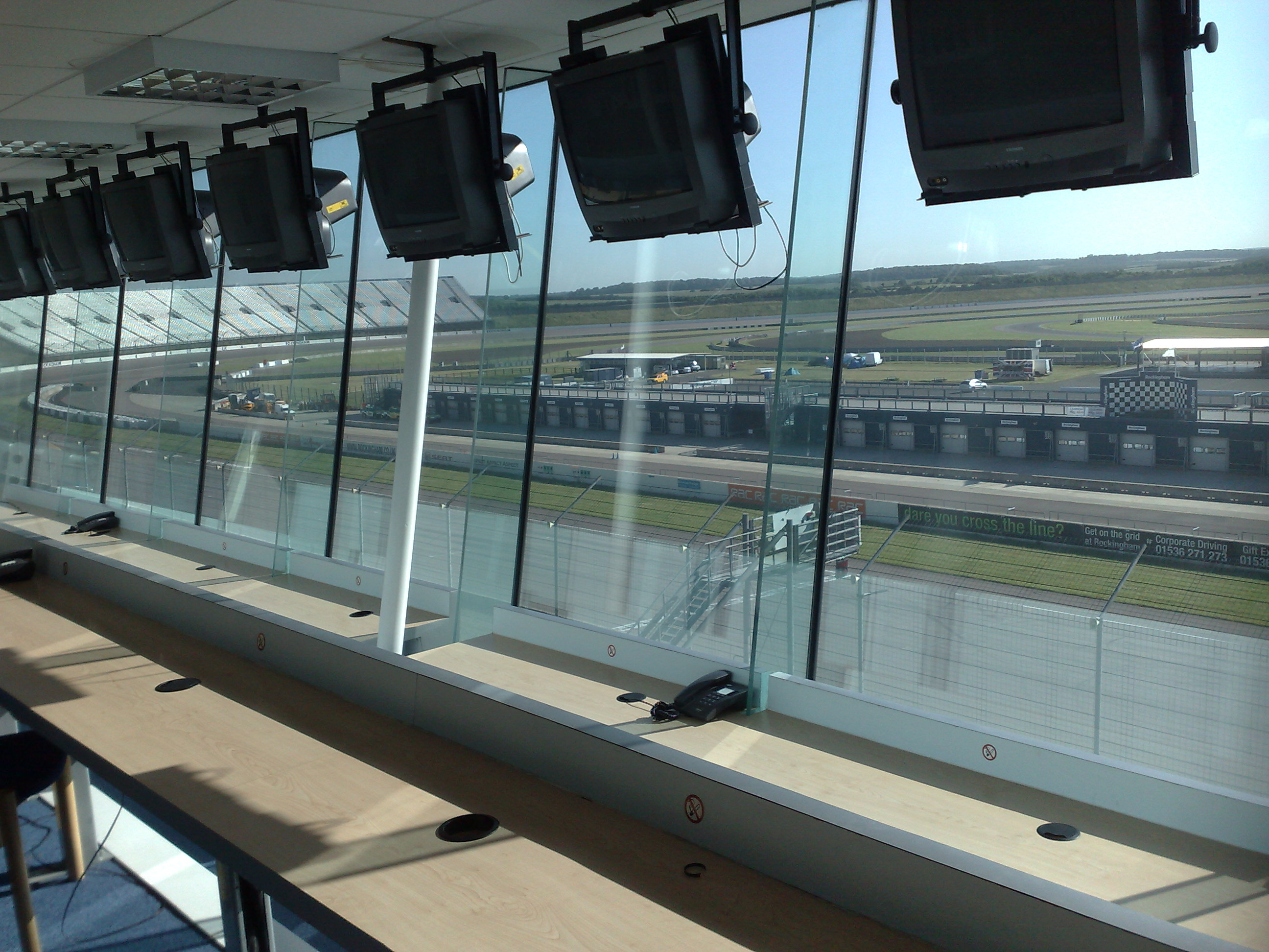 View from inside the Rockingham Motor Speedway media centre.